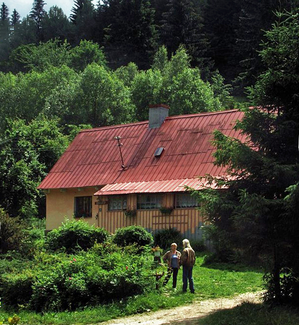 Hostel "Sądejówka" in Kletno, municipality Stronie Śląskie, Lower Silesia, Poland